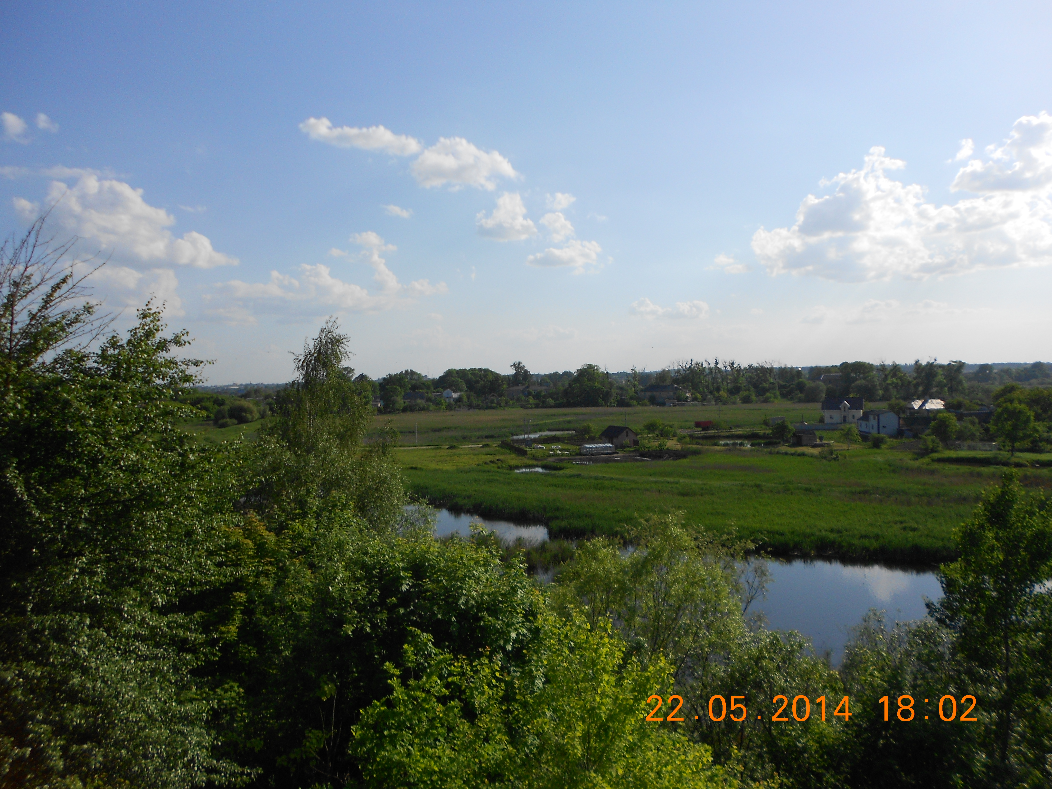 Шпанів DSCN2931